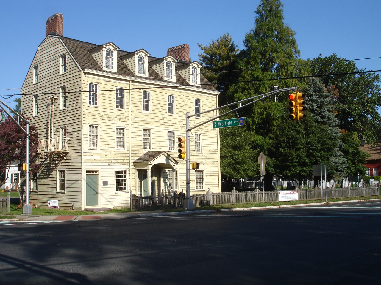 I took this photo of the Merchants' and Drovers' Tavern myself on October 15, 2011.